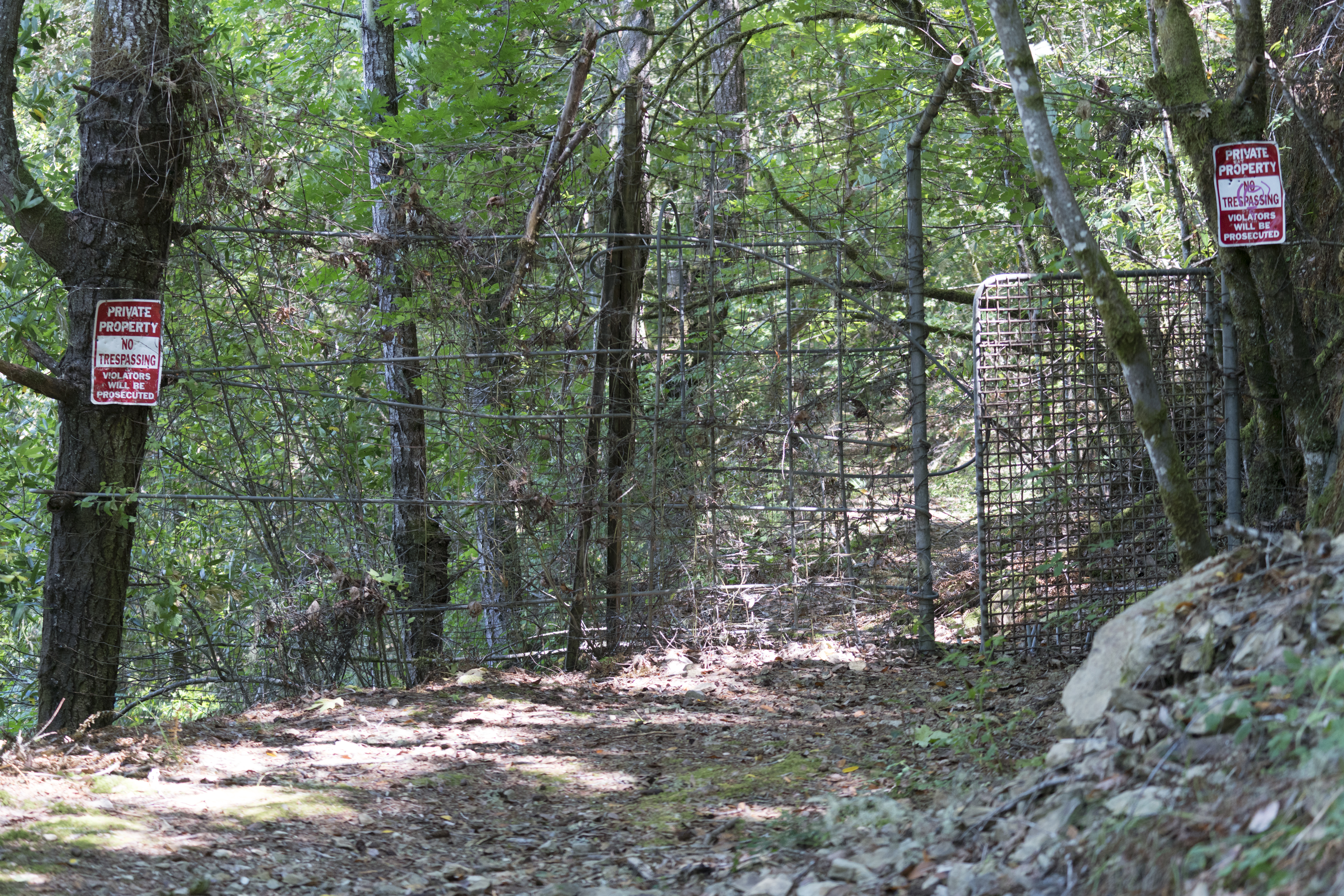 A secret side entrance into the Bohemian Grove.